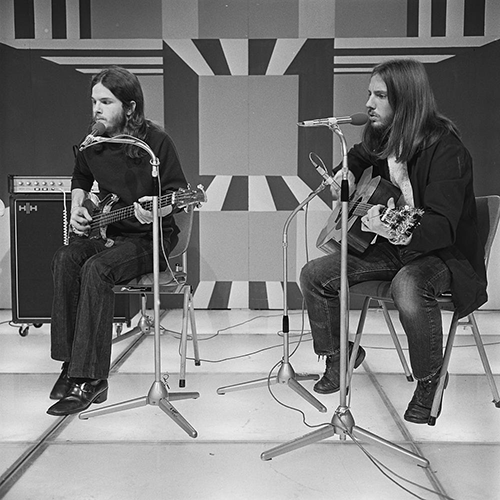 America in AVRO's TopPop (Dutch television show) in 1972